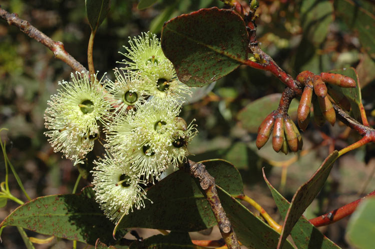 Flower buds of Eucalyptus grossa in the Mount Annan Botanic Gardens, Campbelltown, New South Wales